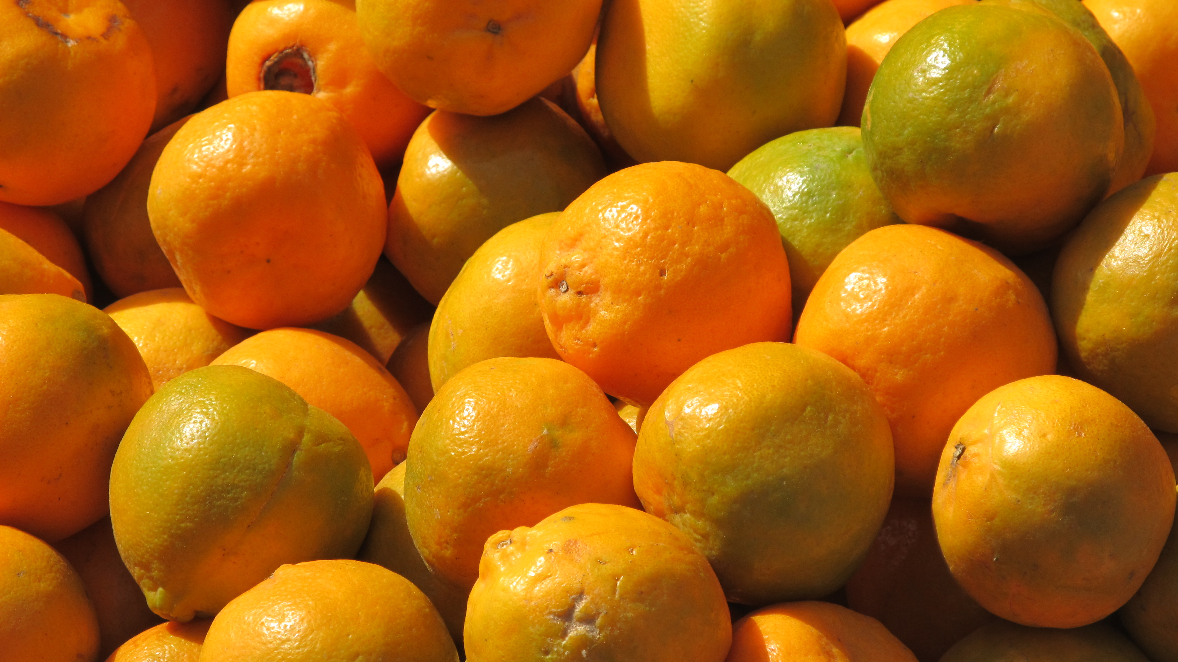 nagpur orange article